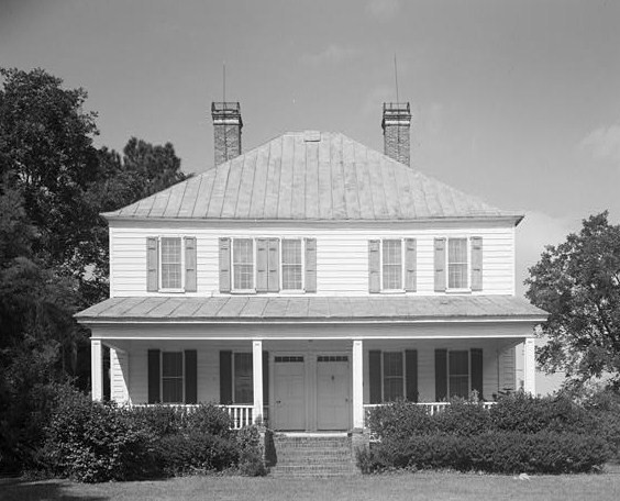 Loch Dhu, State Road 6 & County Road 59 vicinity, Eutawville vicinity (Berkeley County, South Carolina) - cropped